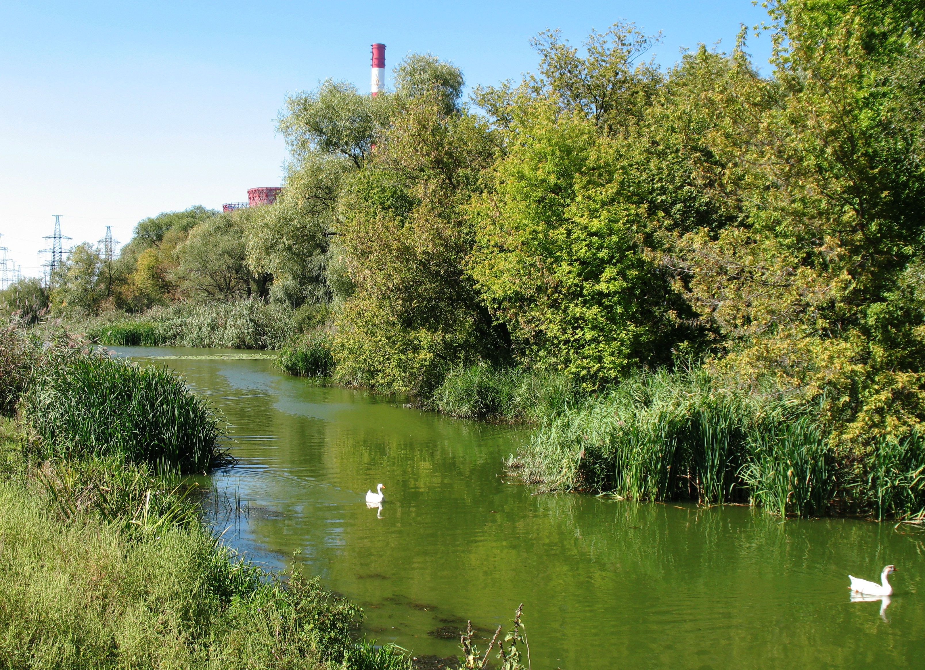 Udy River and ducks in Pesochin.